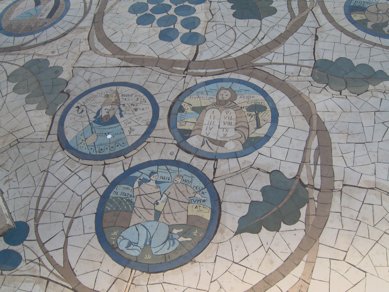 Mosaic in mount of beatitudes in Israel: (1) Saint Ambrose (words: Song of Songs 4:11) (2) Moses (words: Numeri 12:3) (3) Stoning of Stephen (words: Acts 7:60)